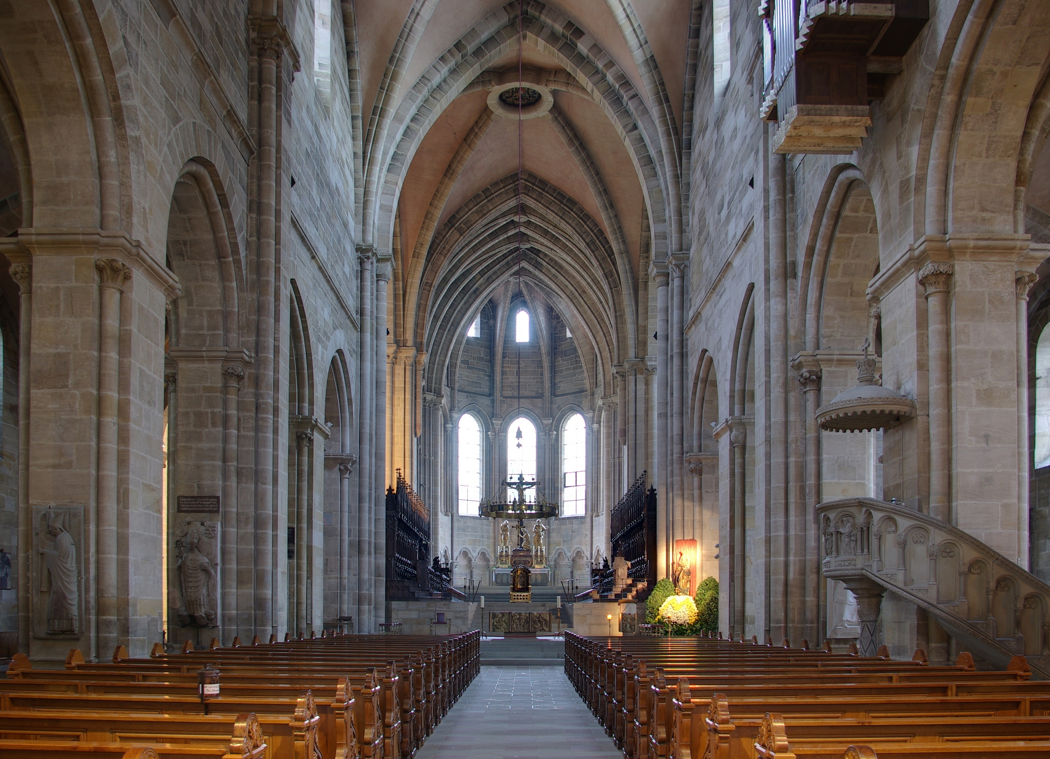 Inside view of the Bamberg cathedral.